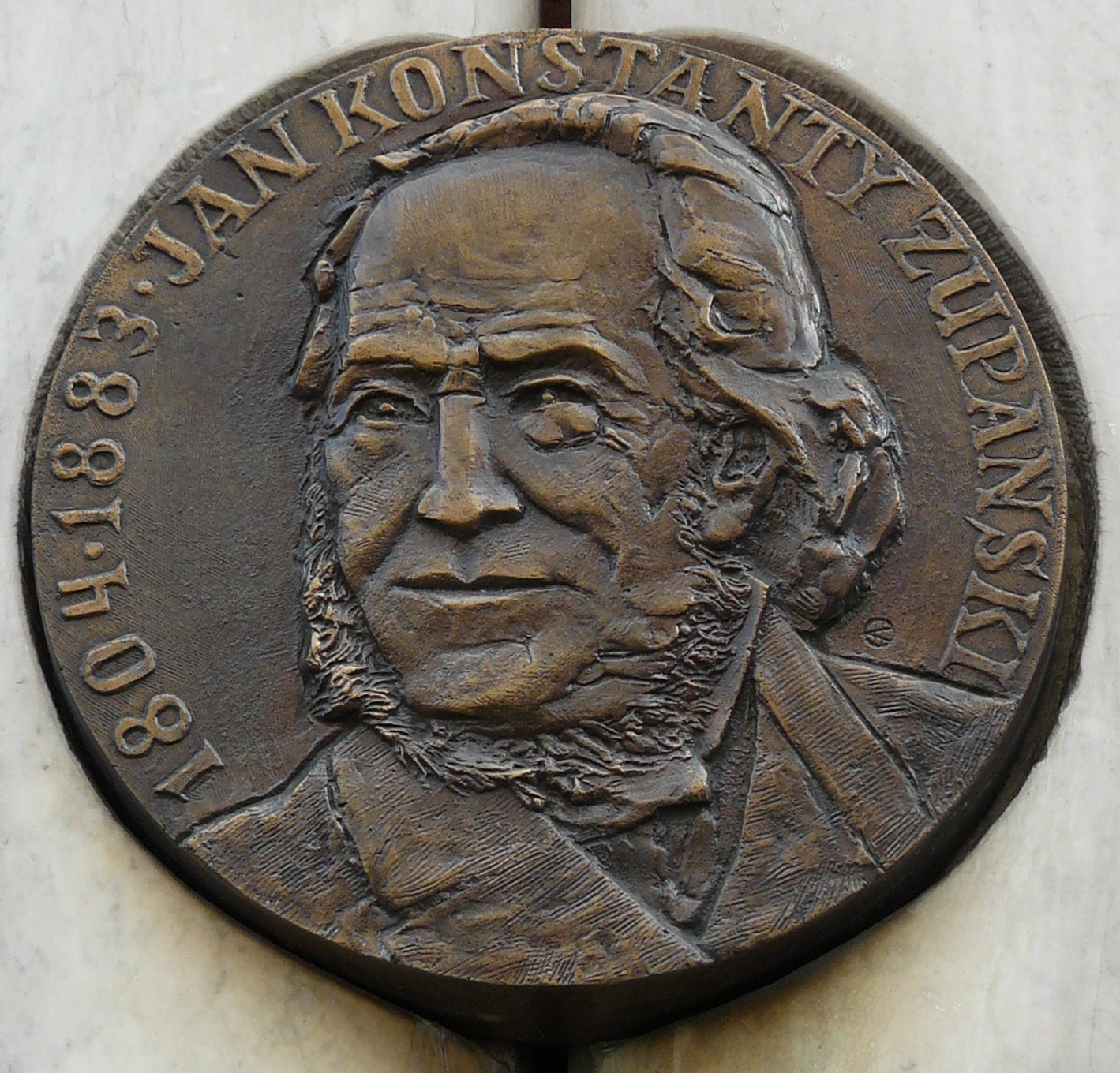 Jan Konstanty Zupanski, table, Poznan, Paderewskiego Street.